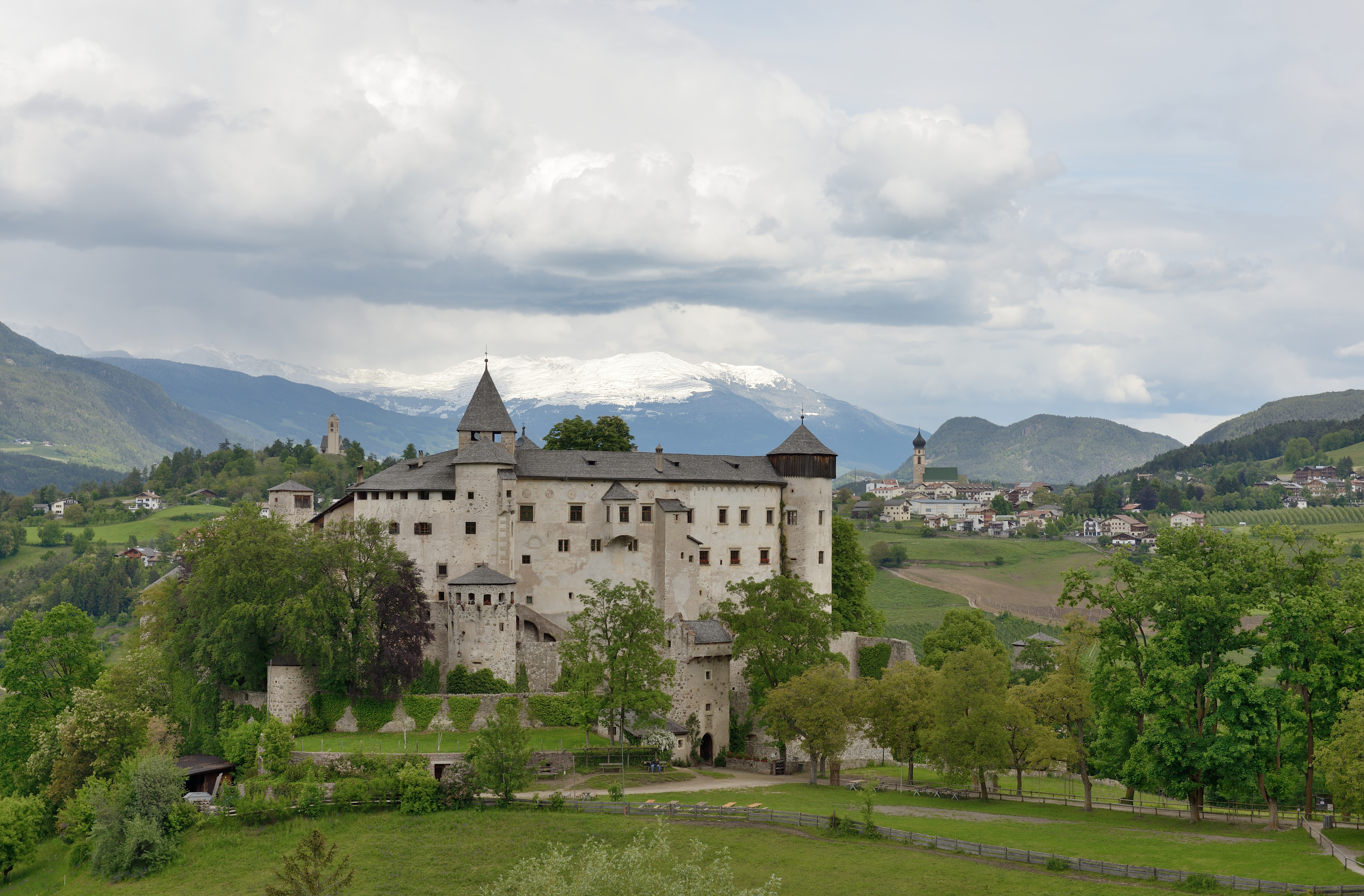 Prösels castel in Völs am Schlern